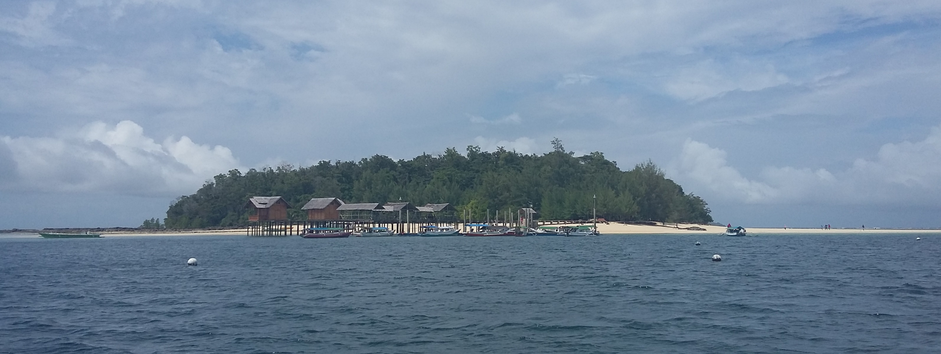 Saronde Island, one of the tourist spots in the province of Gorontalo.